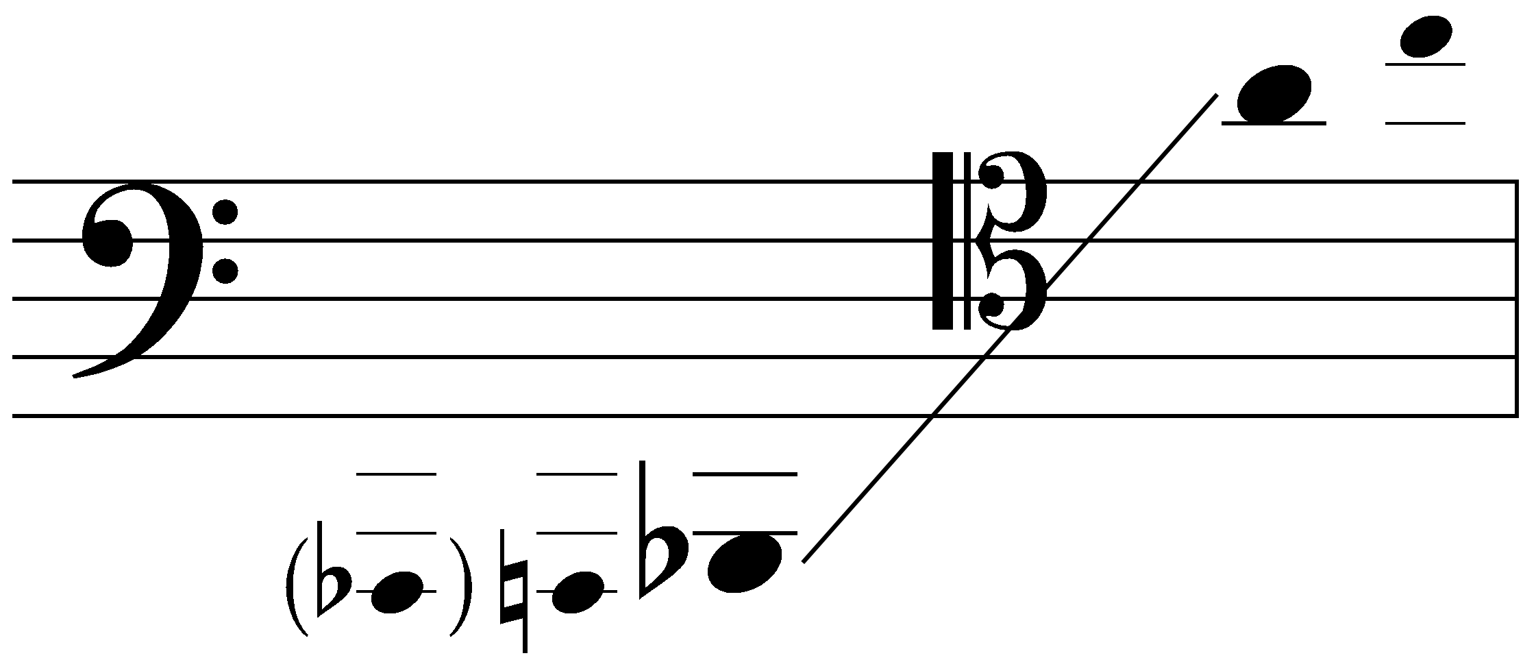 Written range of a contrabassoon, created with Finale